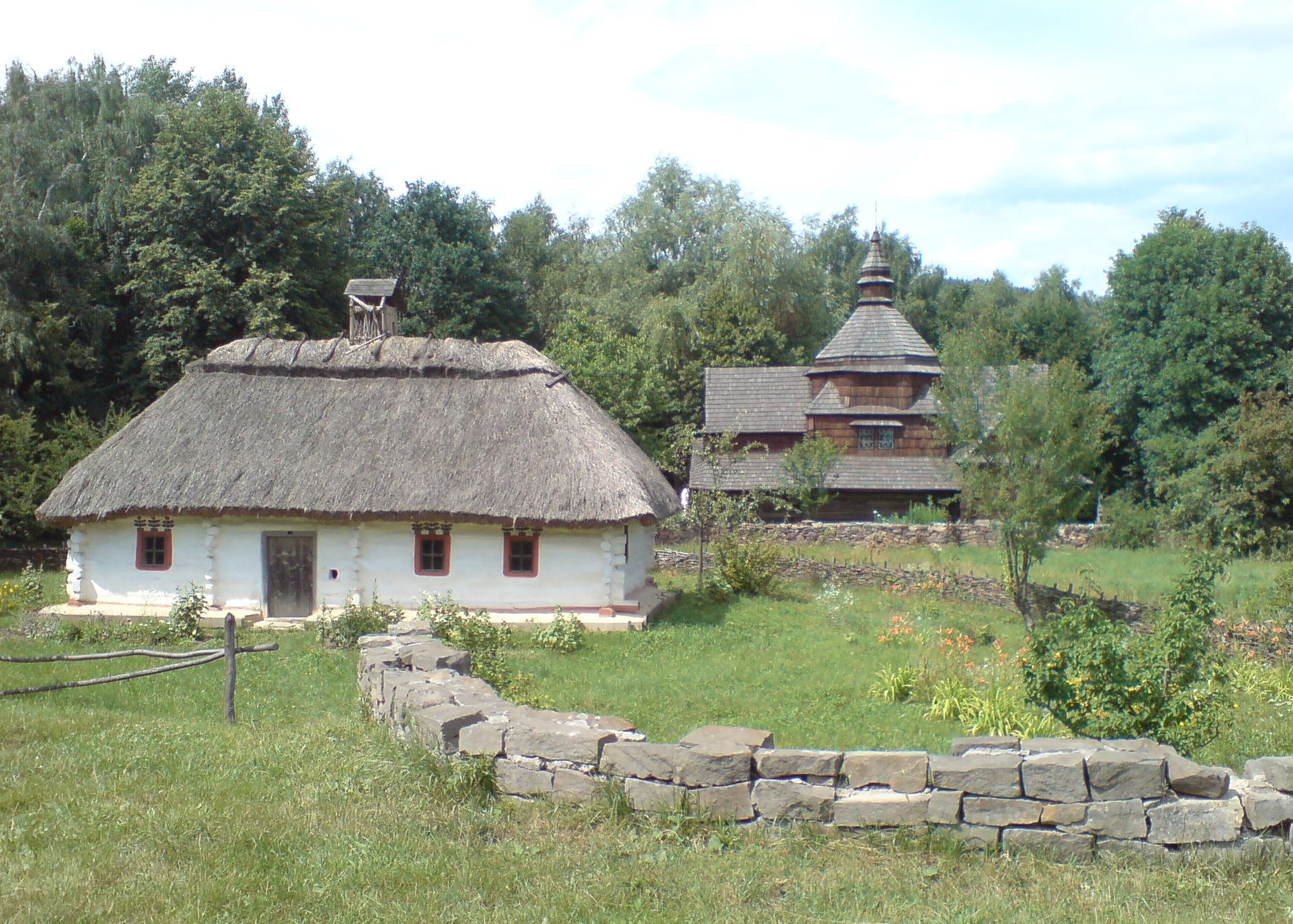 Pyrogiv open-air museum in Kiev: Podillya house and church